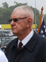 NOUMEA, New Caledonia (Sept. 25, 2009) Capt. Thom Burke, commanding officer of the amphibious command ship USS Blue Ridge (LCC 19) receives a wreath to lay at the U.S. war memorial during a ceremony honouring U.S. service members who helped ensure the freedom of New Caledonia during World War II. (U.S. Navy photo by Mass Communication Specialist Seaman Devon Dow)